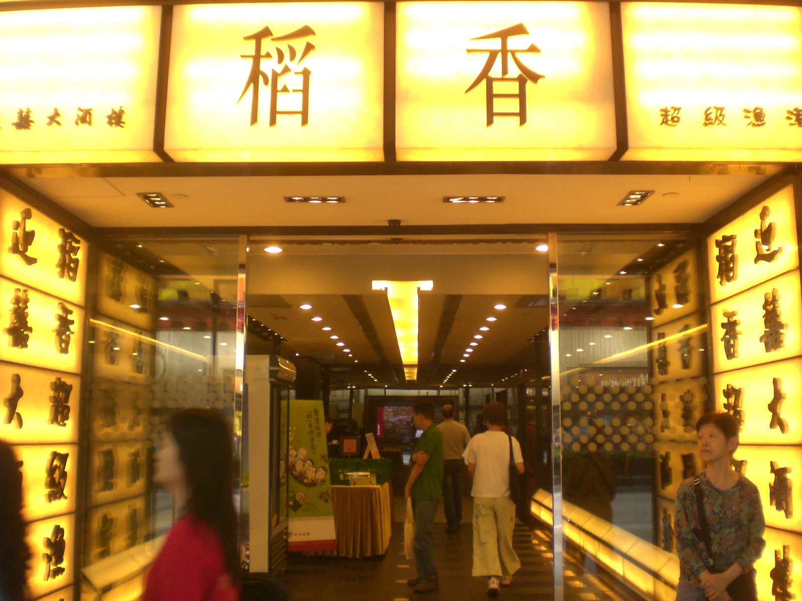 旺角 雅蘭中心 稻香集團